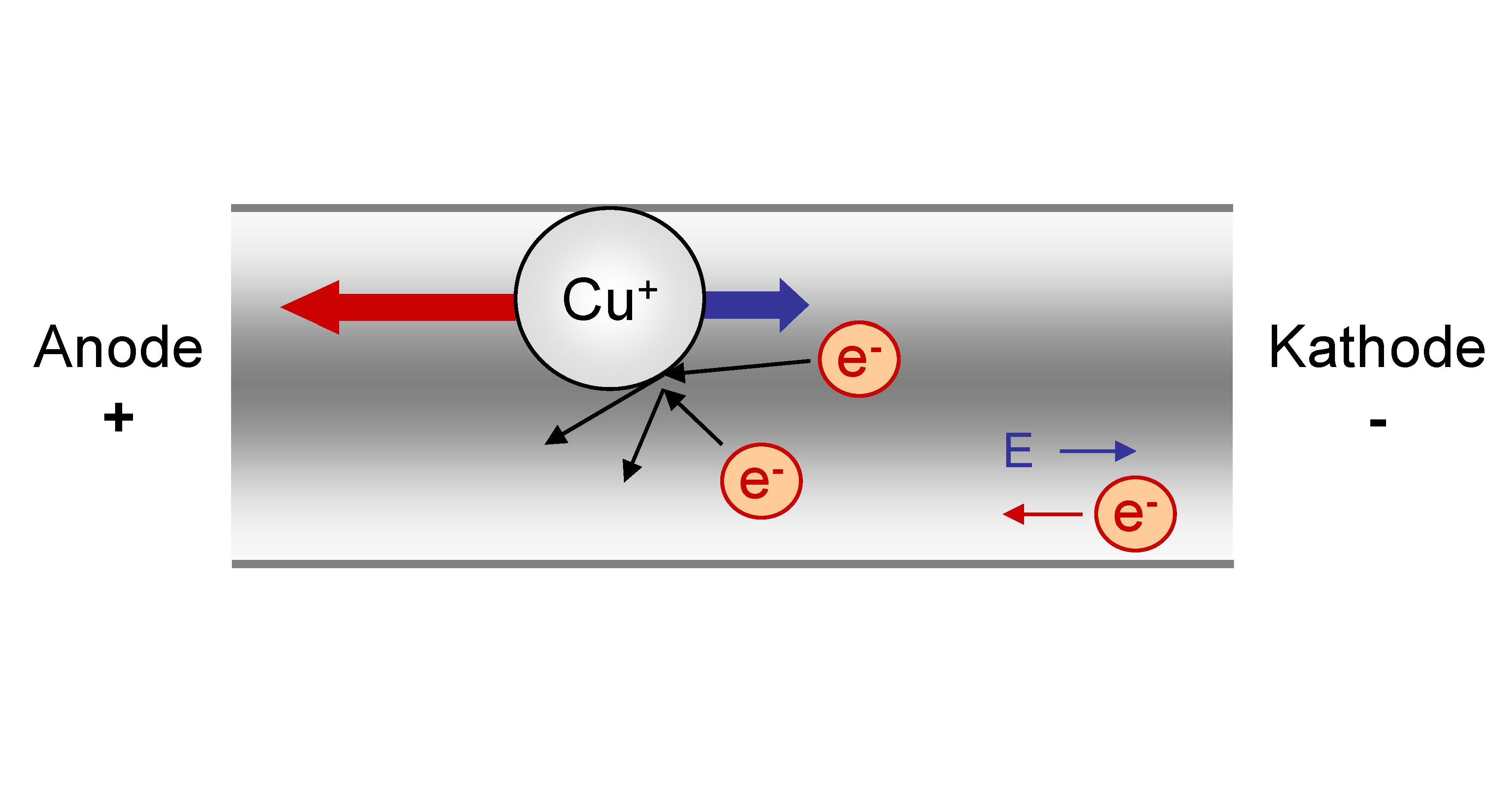 Electromigration is due to the momentum transfer from the electrons moving in a wire